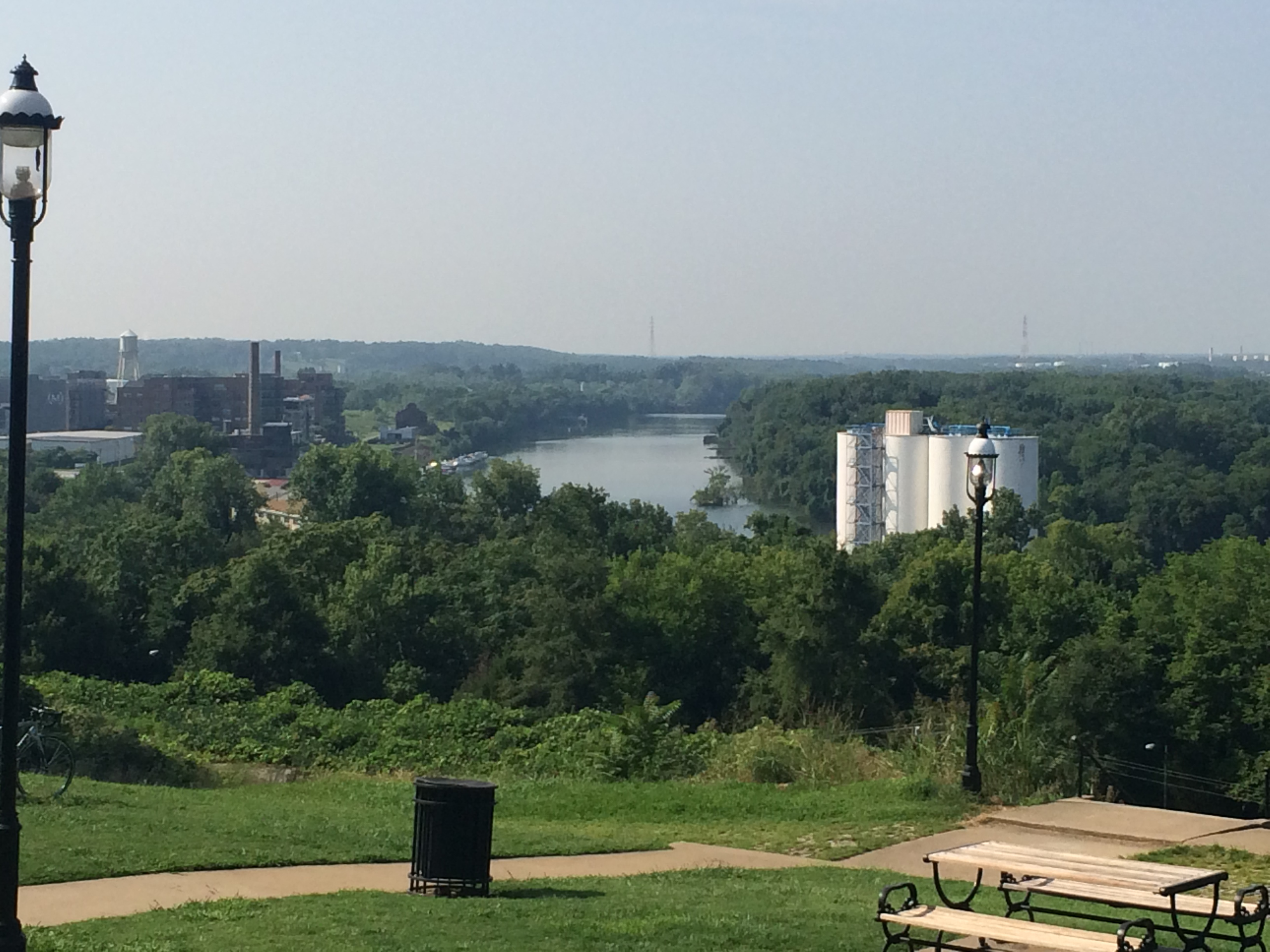 A bend in the James River as seen from Libby Hill Park in Richmond, Virginia. This view is said to mirror a view in Richmond upon Thames, near London in the United Kingdom.